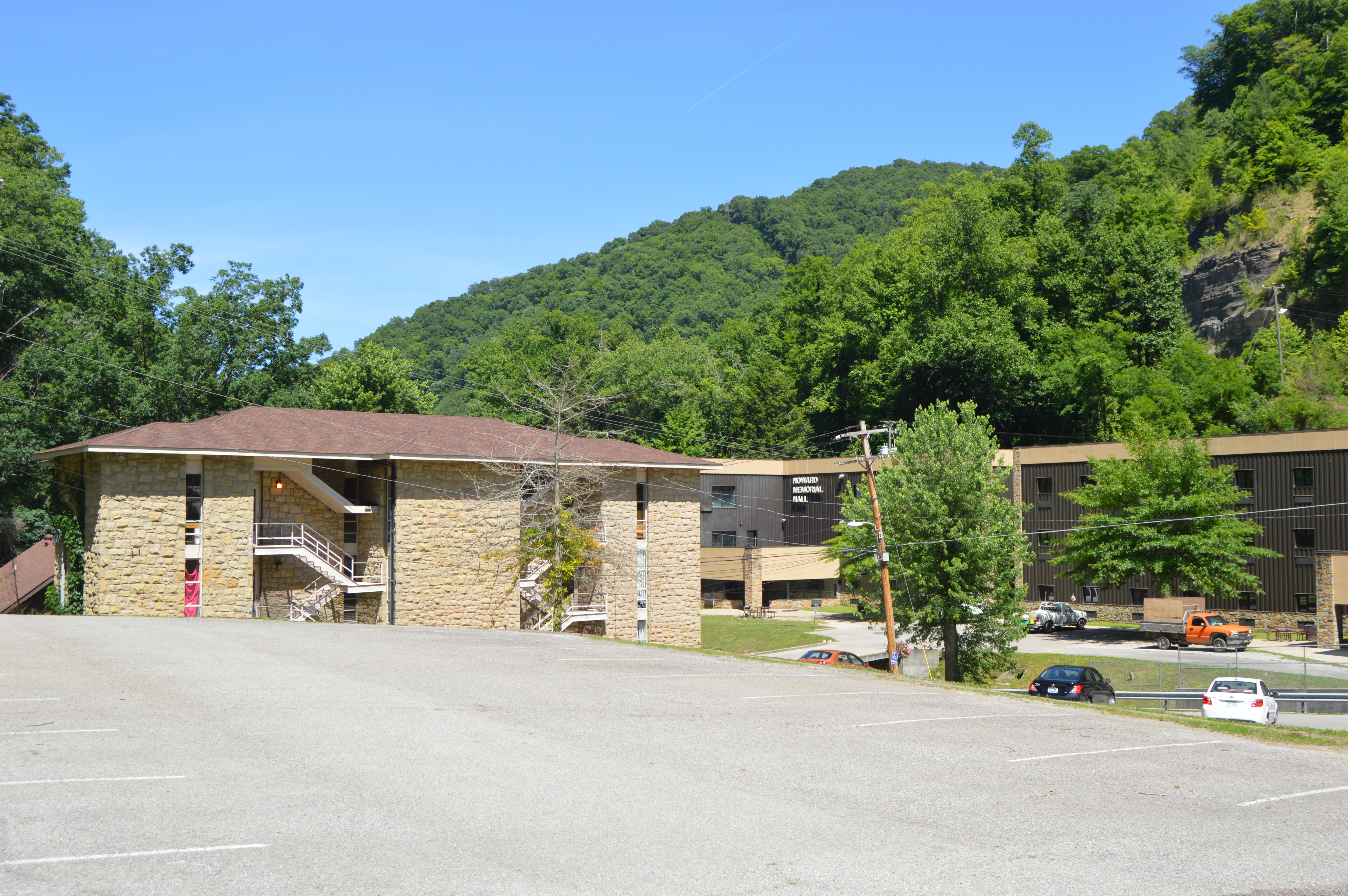 Buildings on the campus of Alice Lloyd College in Pippa Passes, Kentucky, United States. Photo is taken at the western end (?) of the campus, from a parking lot along Spruce Pine Road (Kentucky Route 1697).